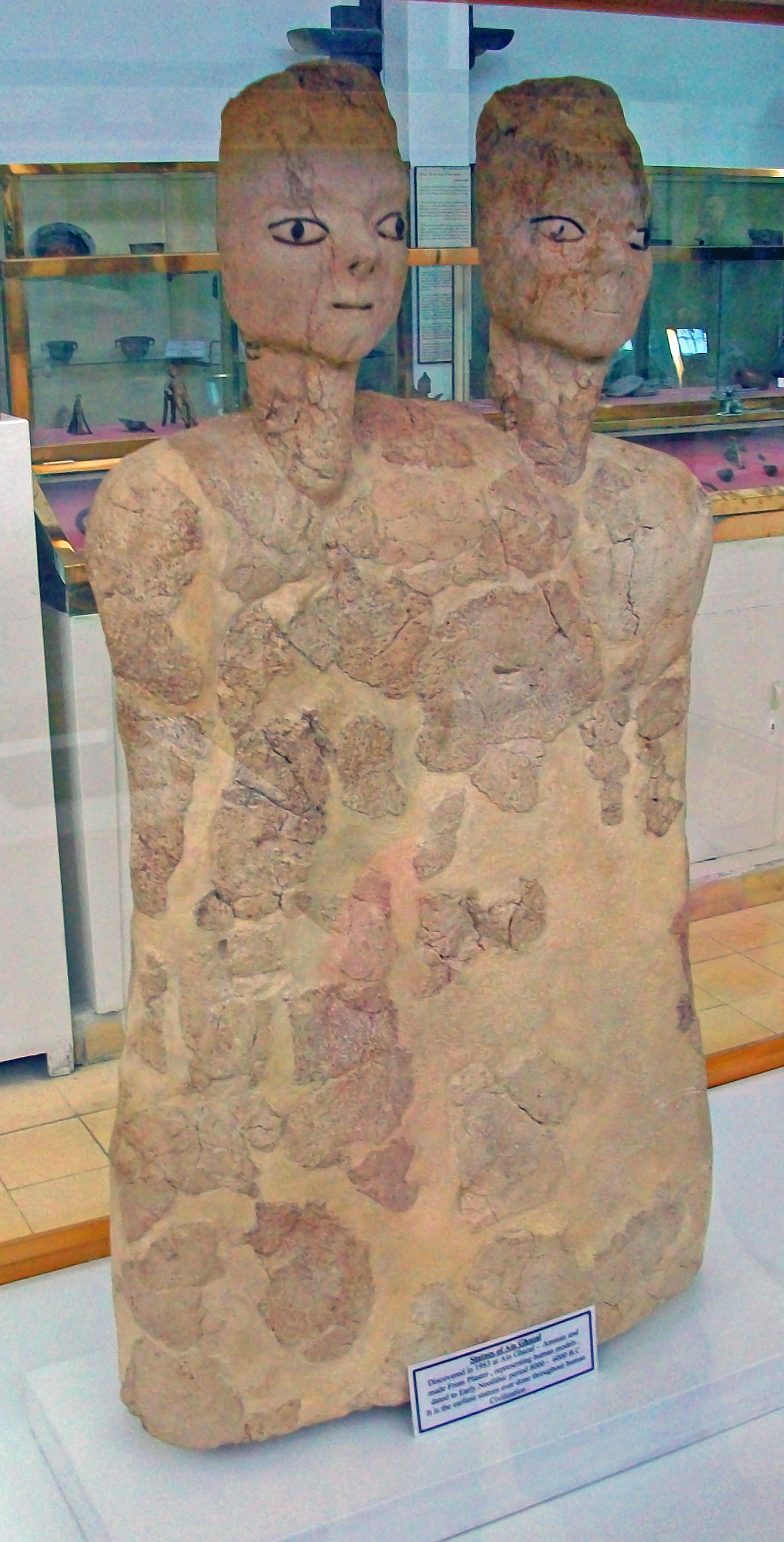 Ain Ghazal statues at Jordan Archaeological Museum